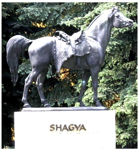 Statue of Shagya the founding sire of the Shagya Arabian breed. Picture taken at the parkarean of the national stud in Bábolna/Hungary.